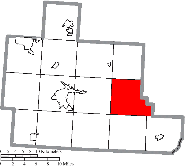 Map of the municipal and township boundaries of Athens County, Ohio, United States, as of the 2000 census, with the location of Rome Township highlighted. Township borders are shown only in unincorporated areas in order to differentiate incorporated and unincorporated areas more clearly.